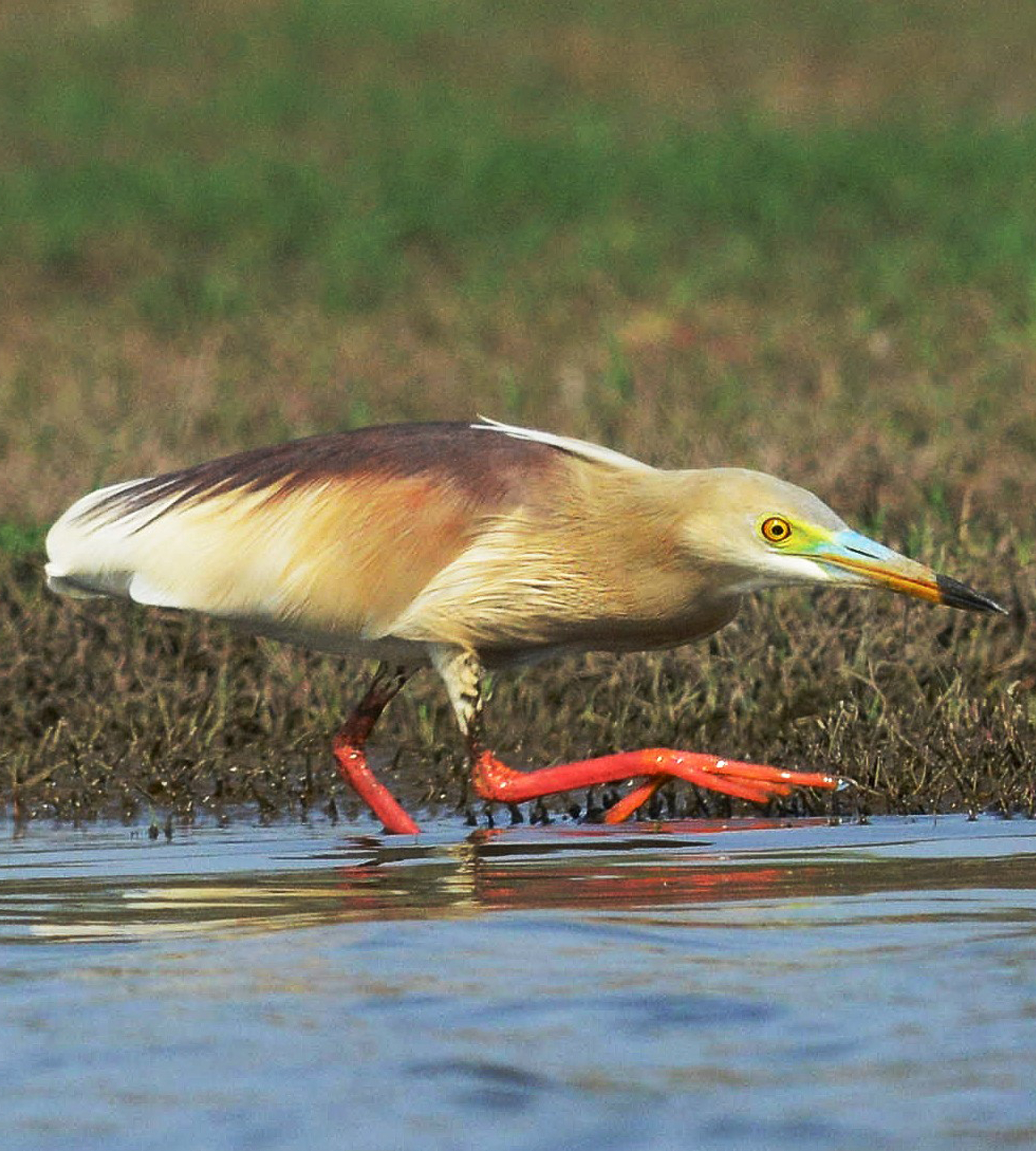 Indian Pond Heron Ardeola grayii shows this plumage with bright red legs in breeding season. However, all breeding birds may not get the red legs as shown in this photo. Photo taken at Nagpur, Maharashtra, India.